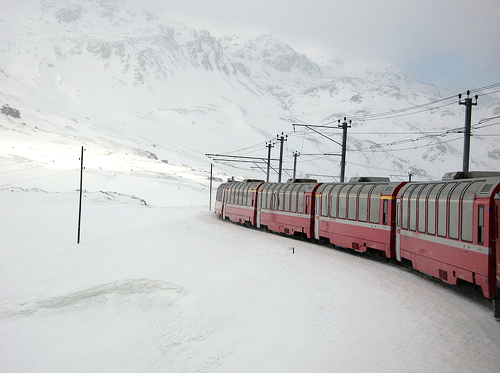 Bernina Express on Berninapass